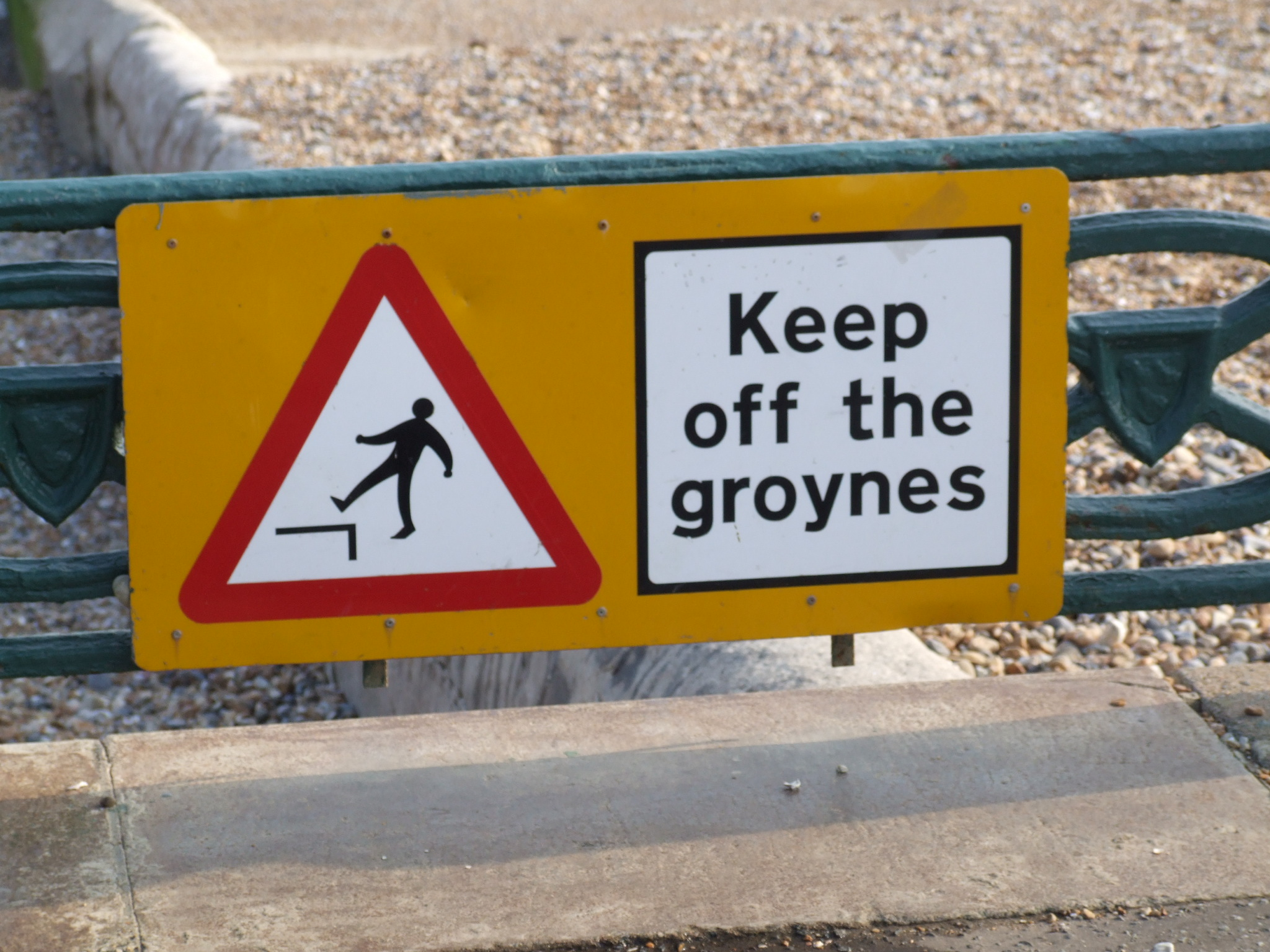 Brighton:Warning Sign